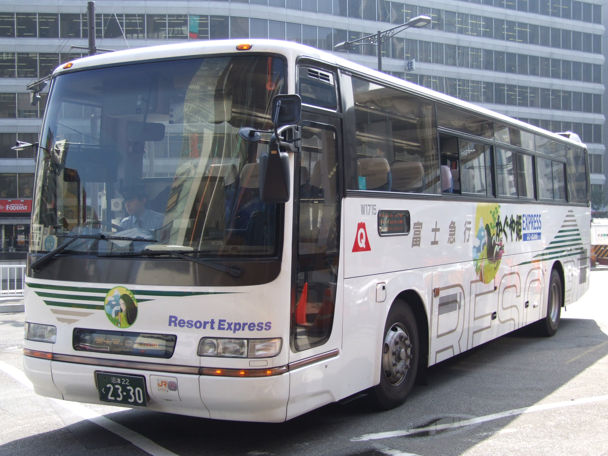 Hino S'Elega for Fujikyu Shizuoka Bus W1715 in Chuo Ward, Tokyo, Japan